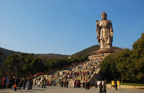 Ling Shan Grand Buddha